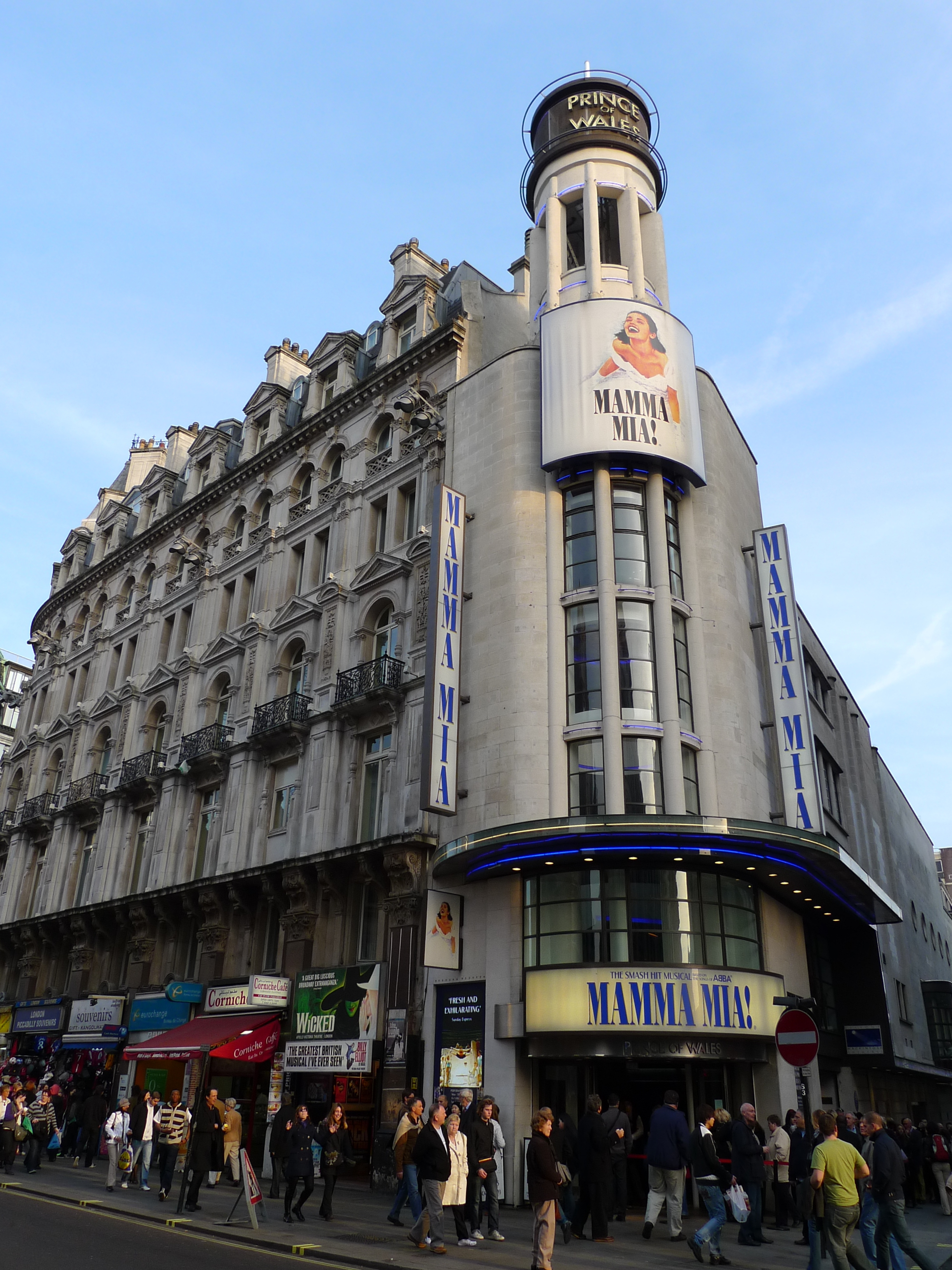 Theatre by Leicester Square which now just shows Mamma Mia. Address: 31 Coventry Street. Former Name(s): Prince's Theatre. Owner: Delfont Mackintosh Theatres (website). Links: Wikipedia